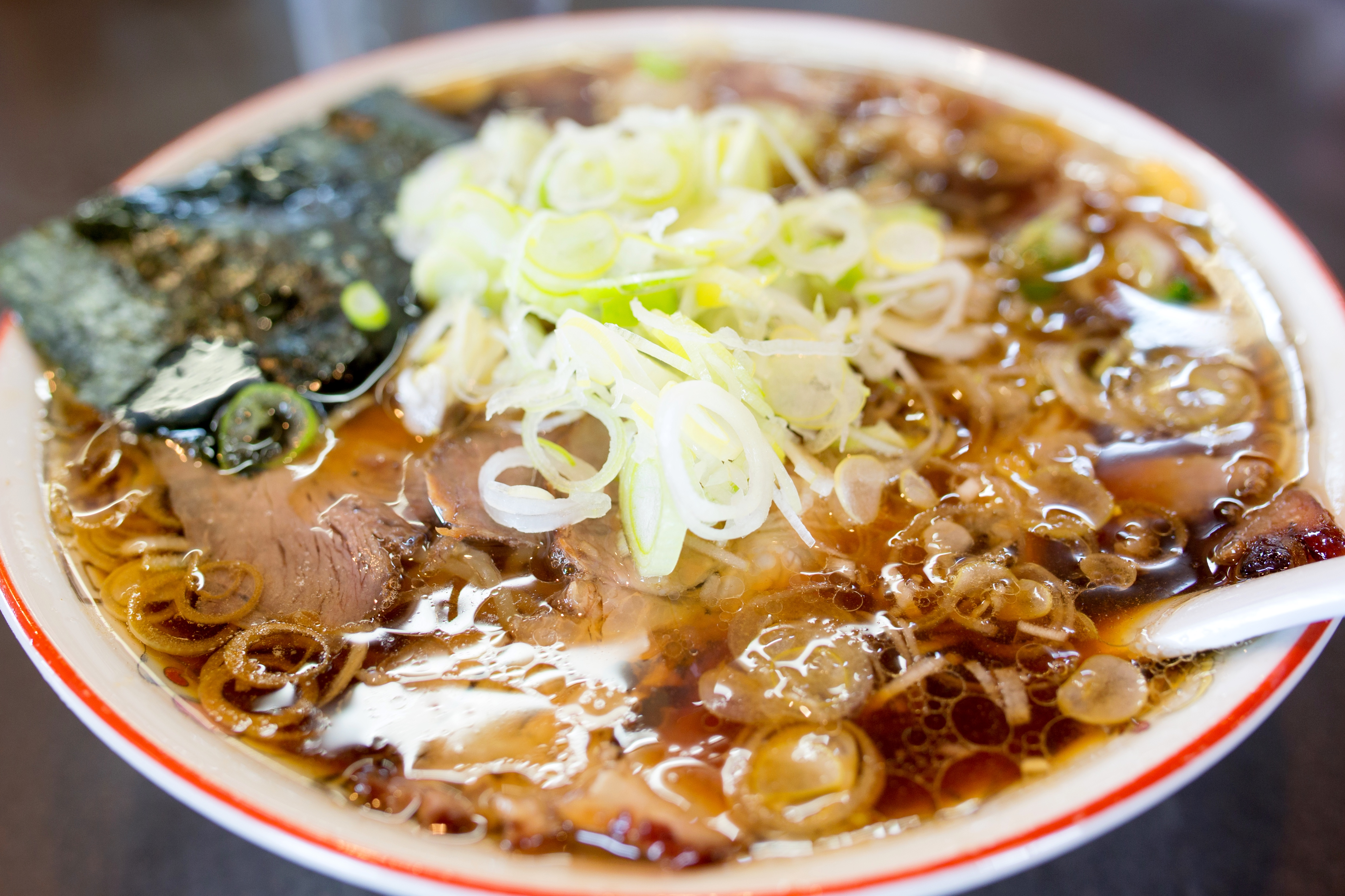 Ramen of Aoshima Syokudo, Nagaoka, Niigata, Japan